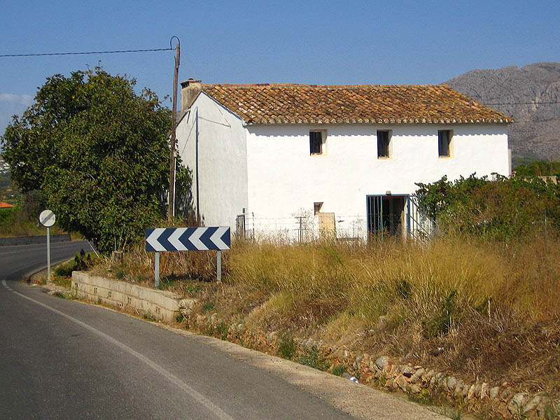 Typical country house, Beniarbeig, county Marina Alta, Region of Valencia, Spain